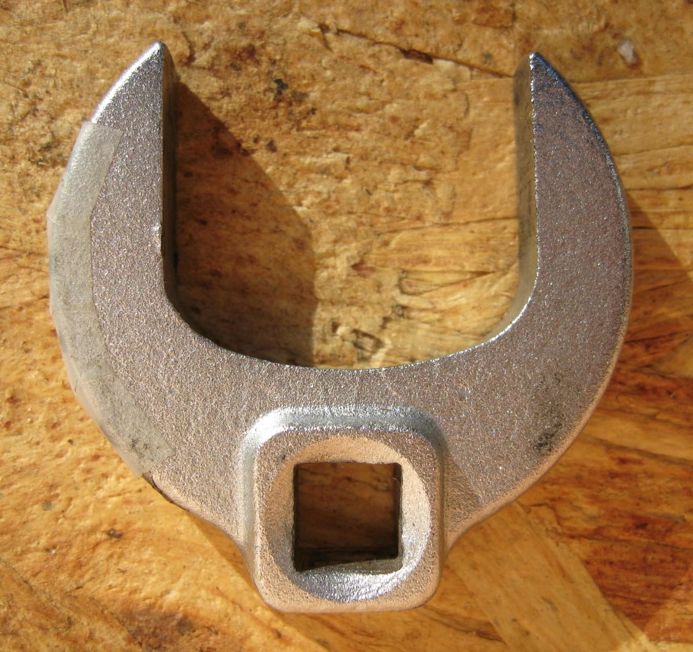 Crow's foot wrench to fit 1-3/8 inch (35 mm) nut or bolt flats. Driven by a 3/8 inch (9.5 mm) square drive. Proto brand, 4944, made in USA.